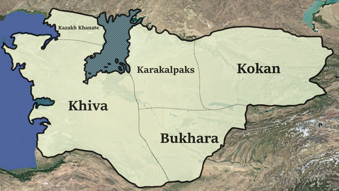 A map of Independent Tartary as of 1850 with geographical features and subdivisions shown